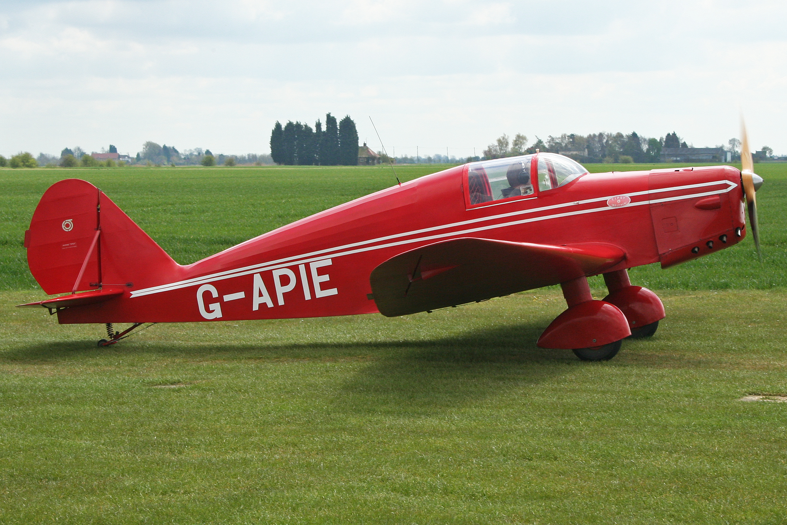 msn 535. A classic visitor seen taxiing out at the 2012 VAC and Daffodil Fly-in. Fenland Airfield. 14-4-2012